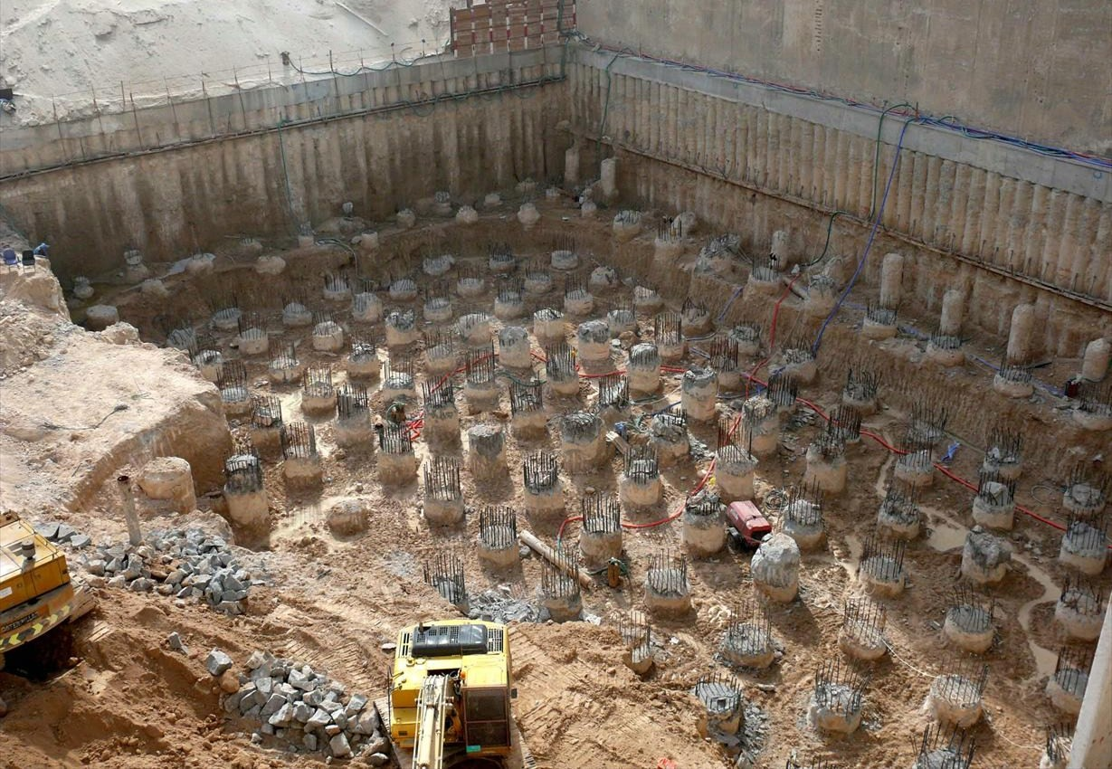 This is a photo showing the construction of Marina 101, located in Dubai Marina in Dubai, United Arab Emirates, on 4 January 2008.